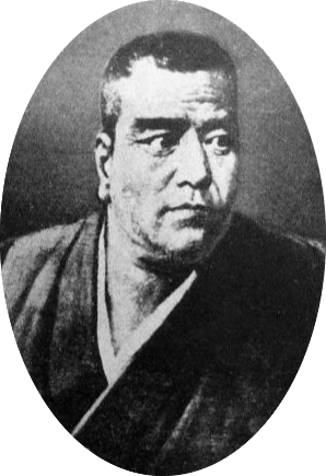 A conte of Saigo Takamori, the assumed author is Edoardo Chiossone. However, it is claimed that Chiossone never met Saigo.